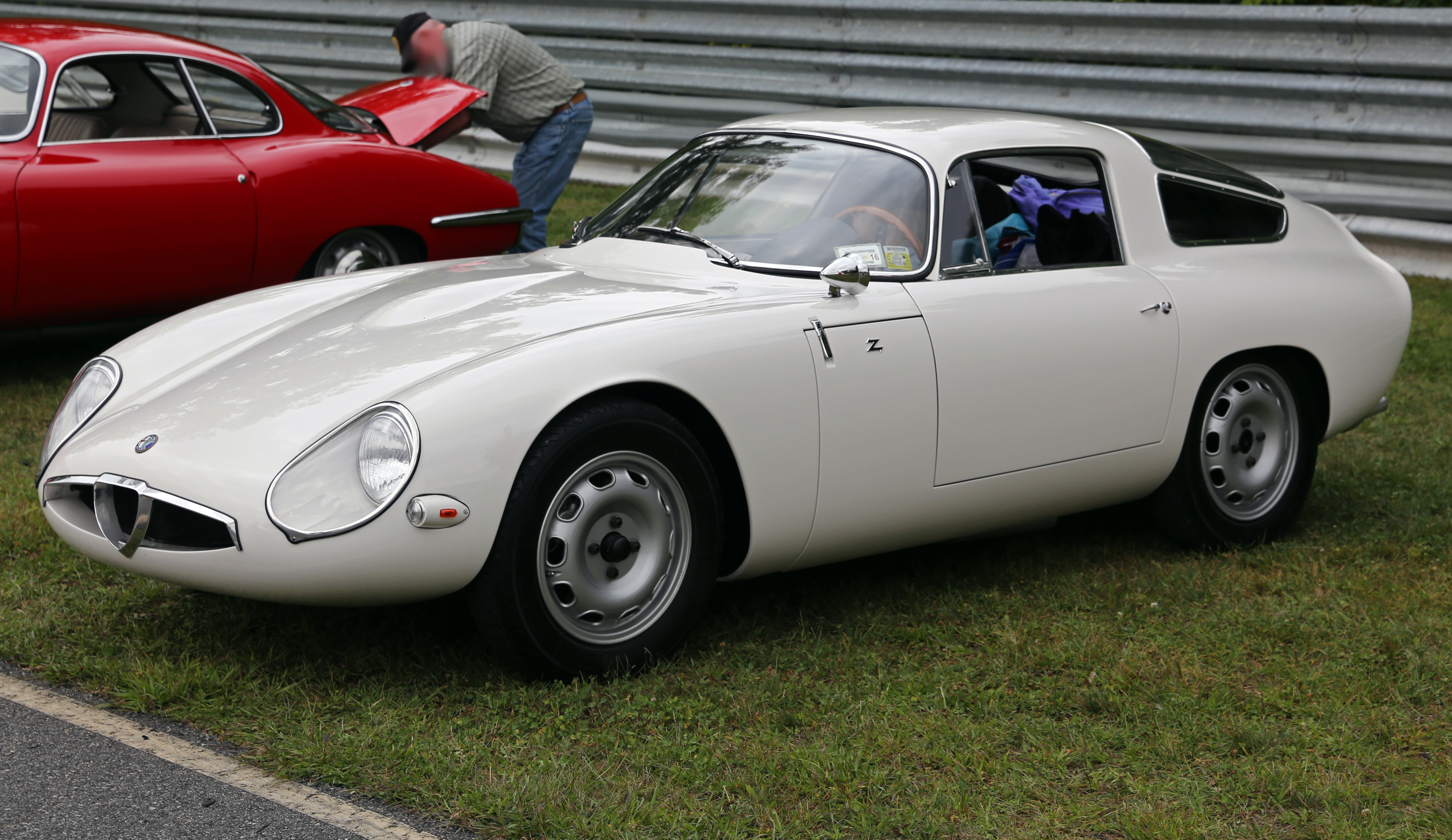 Front left hand view of a 1963 Alfa Romeo Giulia TZ at the 2014 Lime Rock Concours d'Élegance.